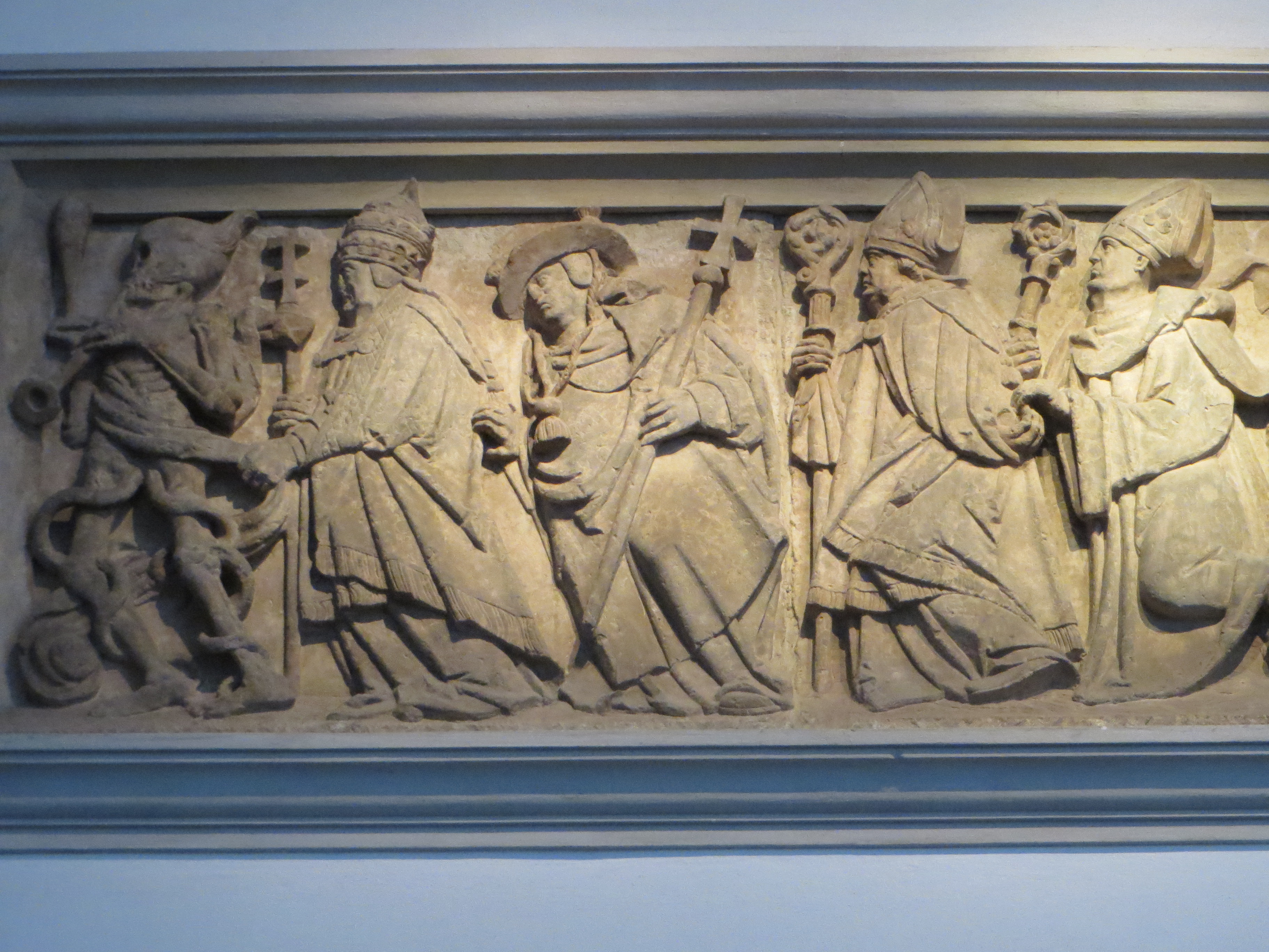 Interior of Dreikoenigskirche, Dresden-Neustadt: Dresdner Totentanz, originally part of the Dresden Ducal residence